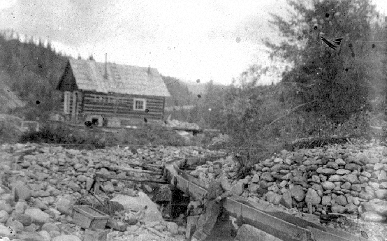 Photo taken 1878 Photograper Unknown BC Archives #B-01300 [1]